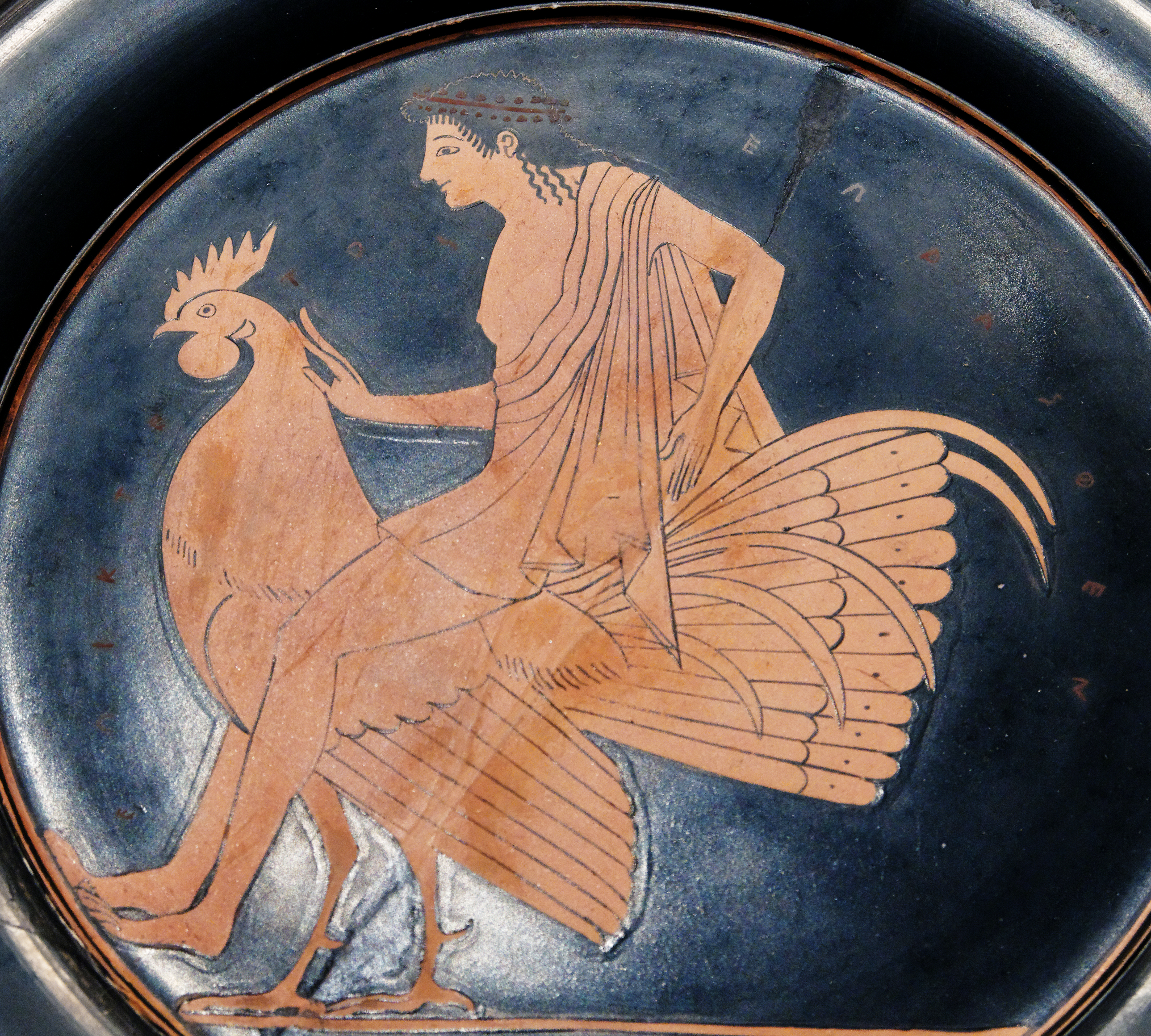 Youth riding a rooster. Tondo of an Attic red-figured kylix.